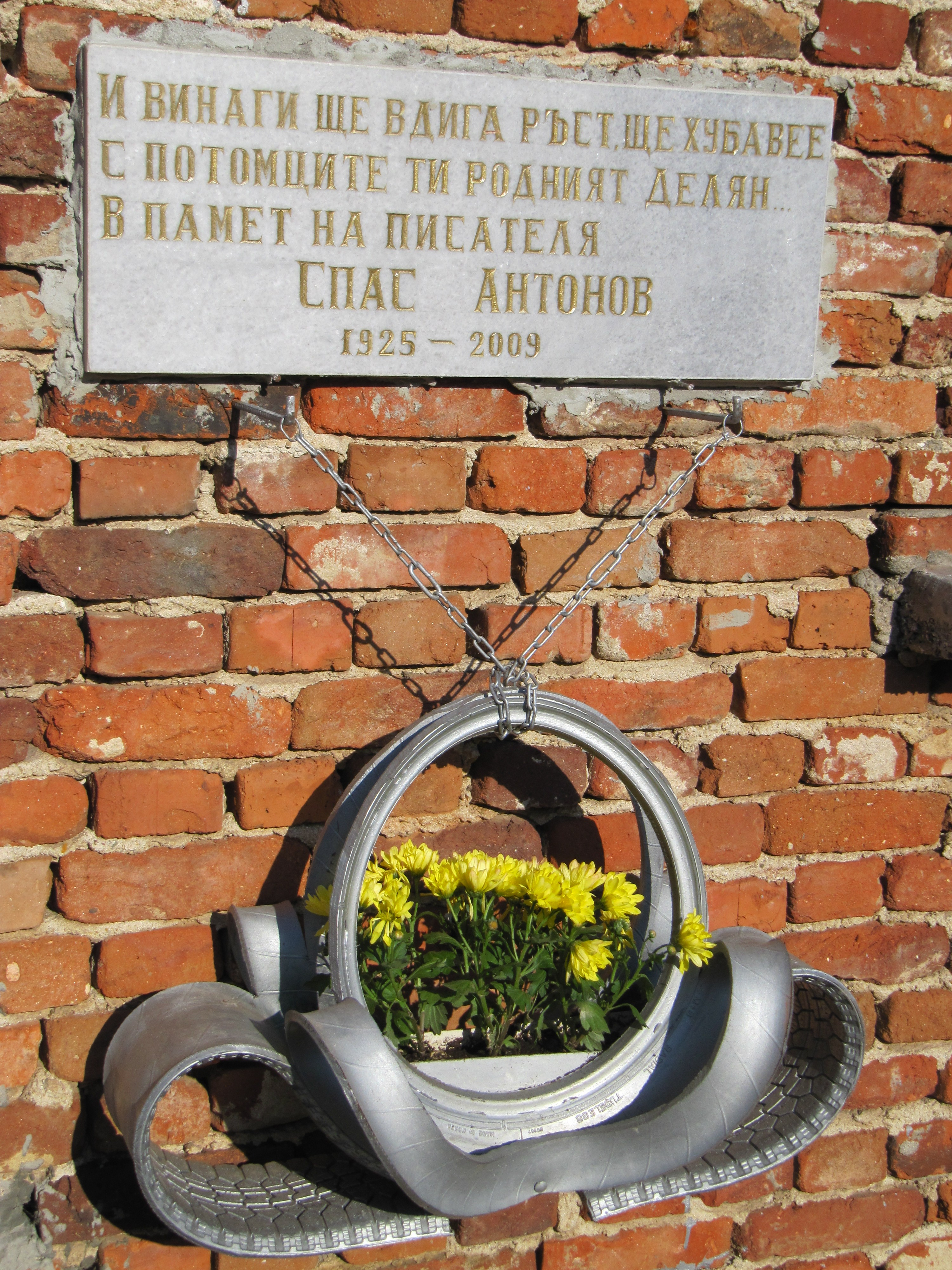 A plaque of the Bulgarian poet Spas Antonov in his native village Delyan